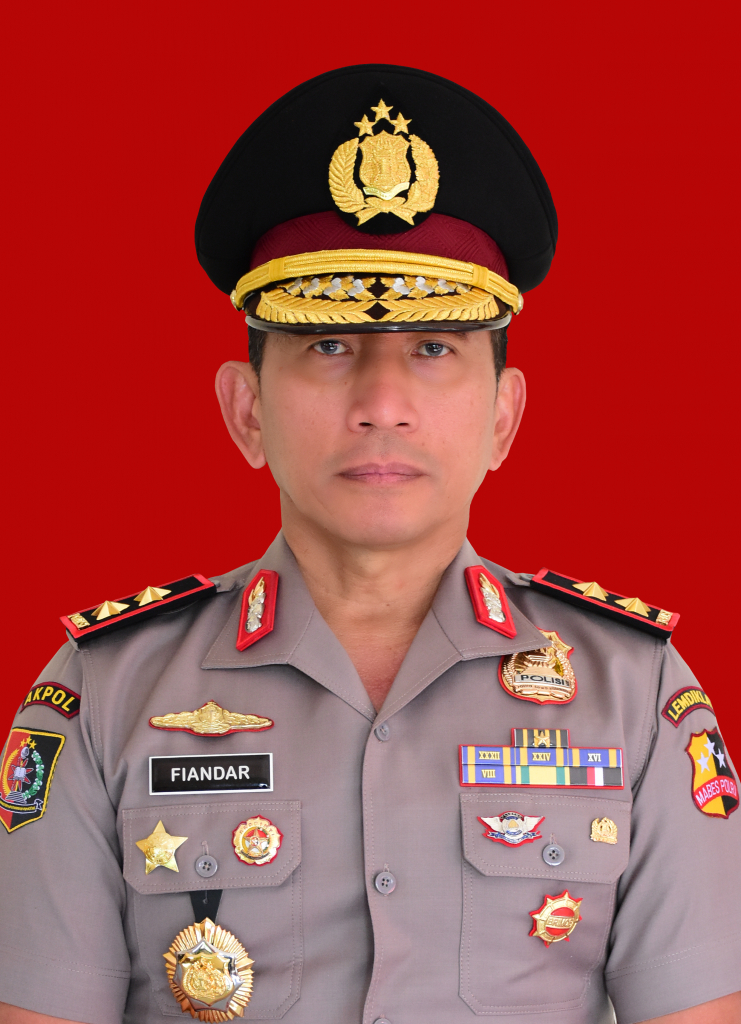 Governor of Indonesian National Police Academy, Inspector General Fiandar in 2019.